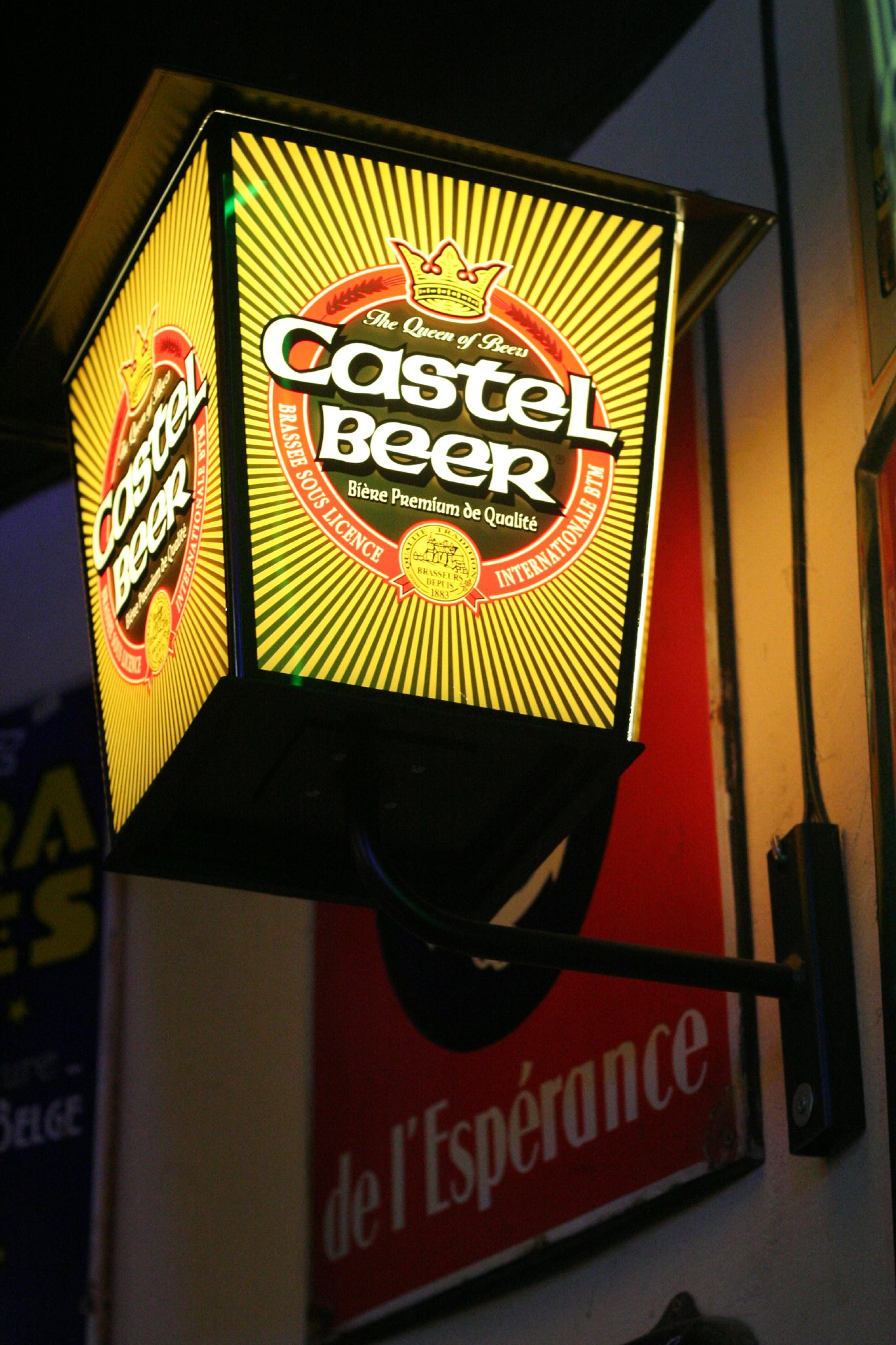 Castel Beer promotional bracket lantern